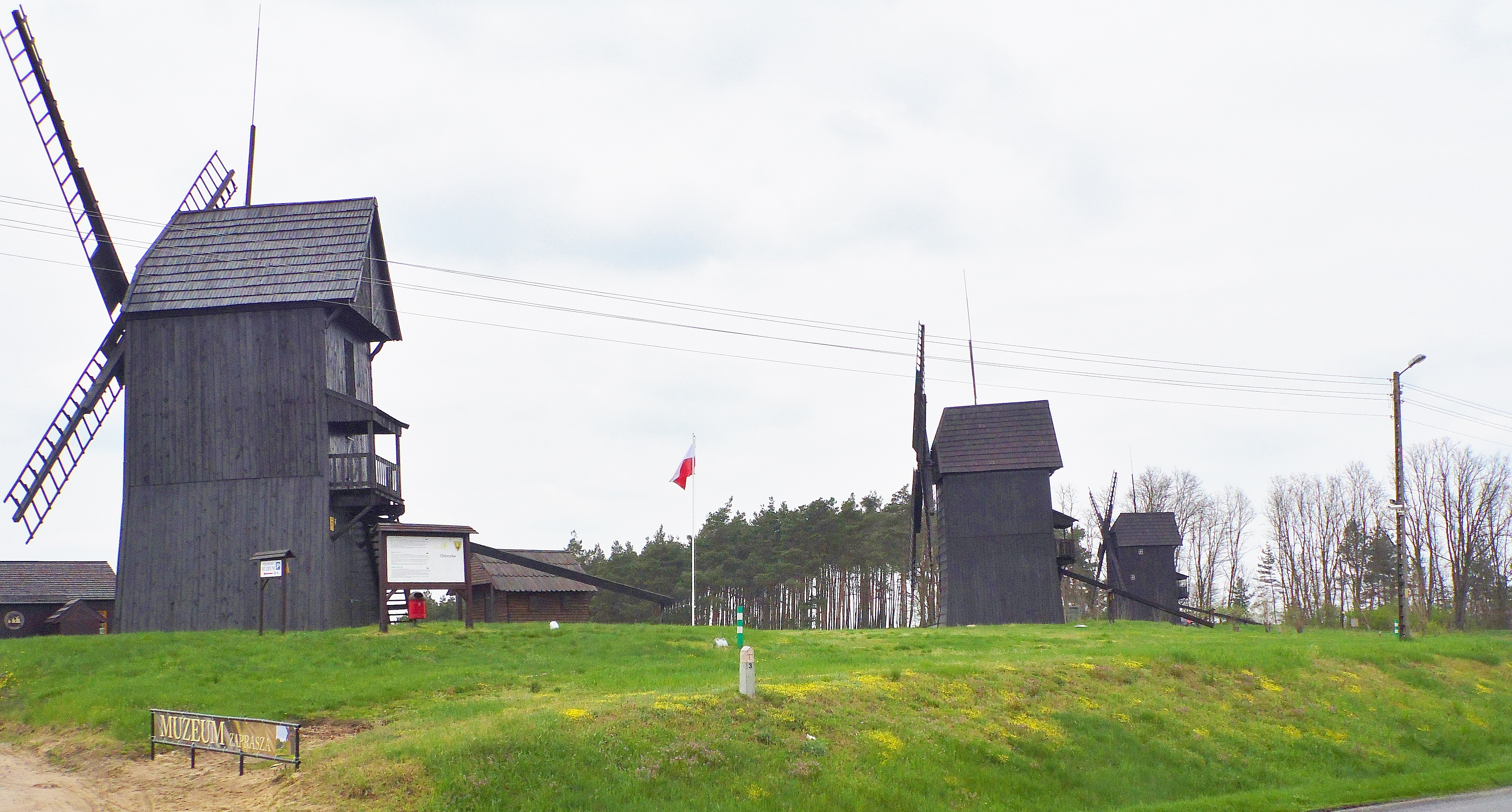 Windmills of 2 half of the eighteenth century - Osieczno, ul. Leszczyńska / area. Leszno / province. Greater Poland / Poland